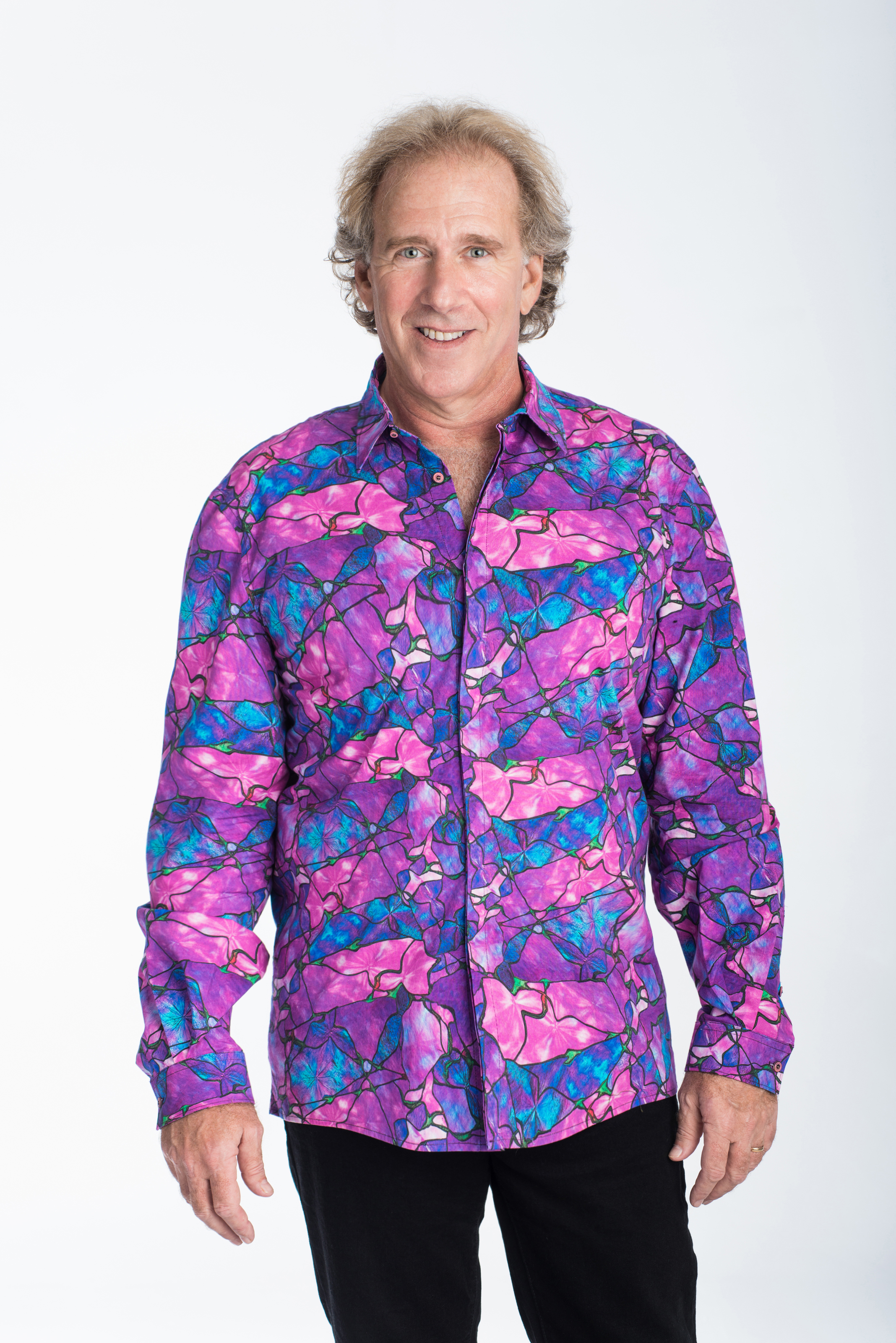 Steve Luongo wearing Vines from Steve Luongo Designs